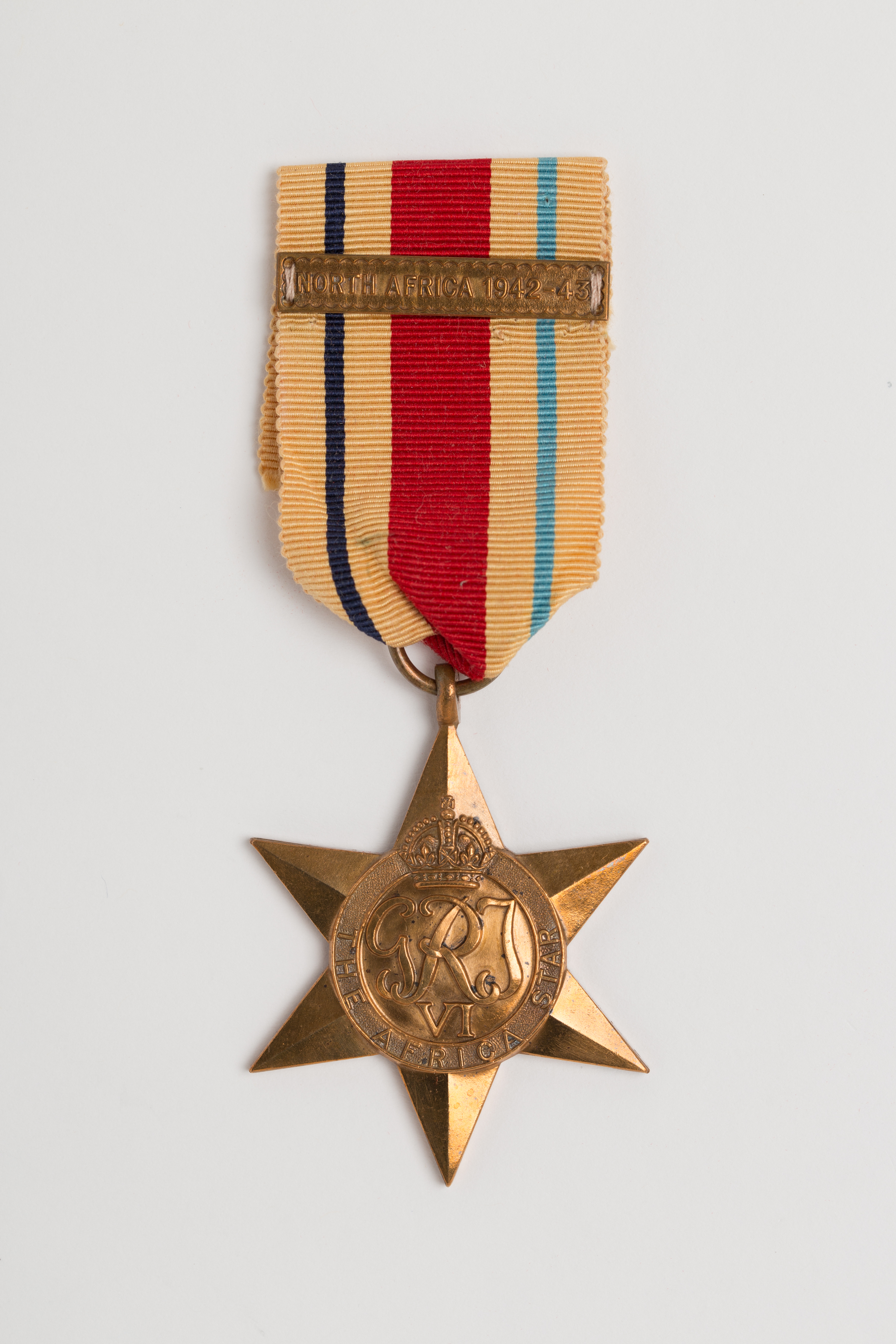 Africa Star with bar for North Africa 1942-43, WW2 bronze six pointed star 43mm diameter, ring suspender, with ribbon Obverse- In the centre the Royal cypher ‘GRI’ with ‘VI’ below. The cypher is surmounted by a crown on a circlet which bears the title of the star ‘THE AFRICA STAR’ reverse- plain Ribbon- 32mm wide grosgrain ribbon, pale buff with a central red stripe and two narrow stripes, one of dark blue and the other of light blue bar- NORTH AFRICA 1942-43